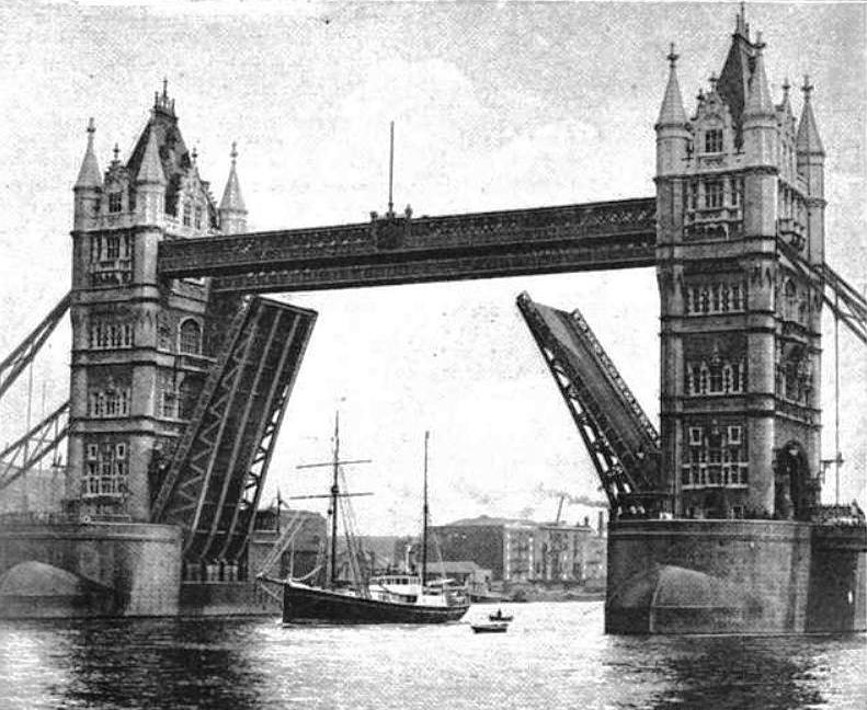 Shackleton's ship "Quest" passing though the Tower Bridge, London prior to being fitted out for his last trip to Antactica